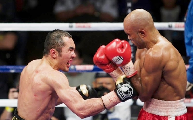 Beibut Shumenov (on the left) vs. Gabriel Campillo at the Hard Rock Hotel and Casino on January 29, 2010.